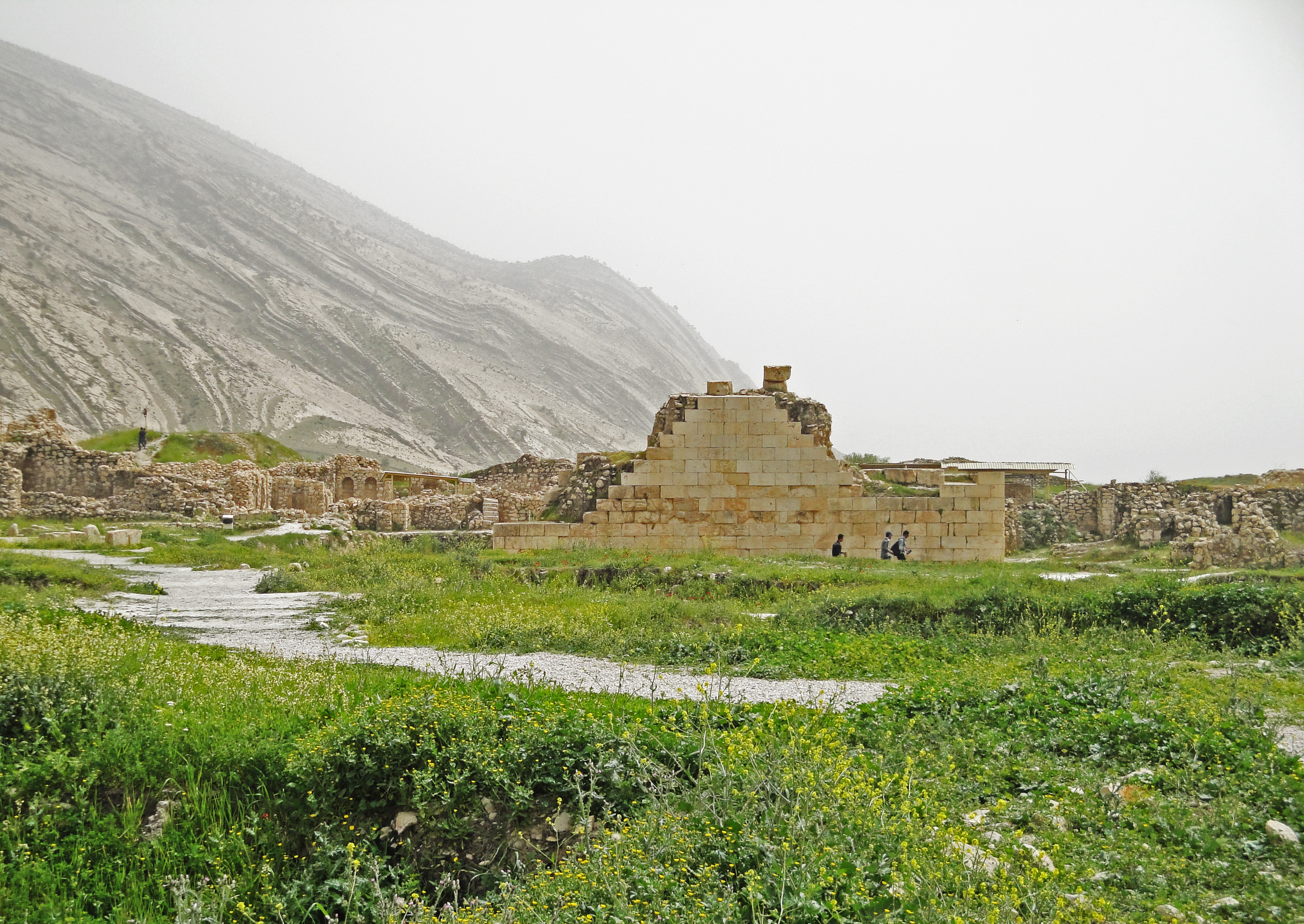 Bishapur